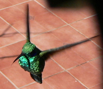 Green Violet-ear, Costa Rica